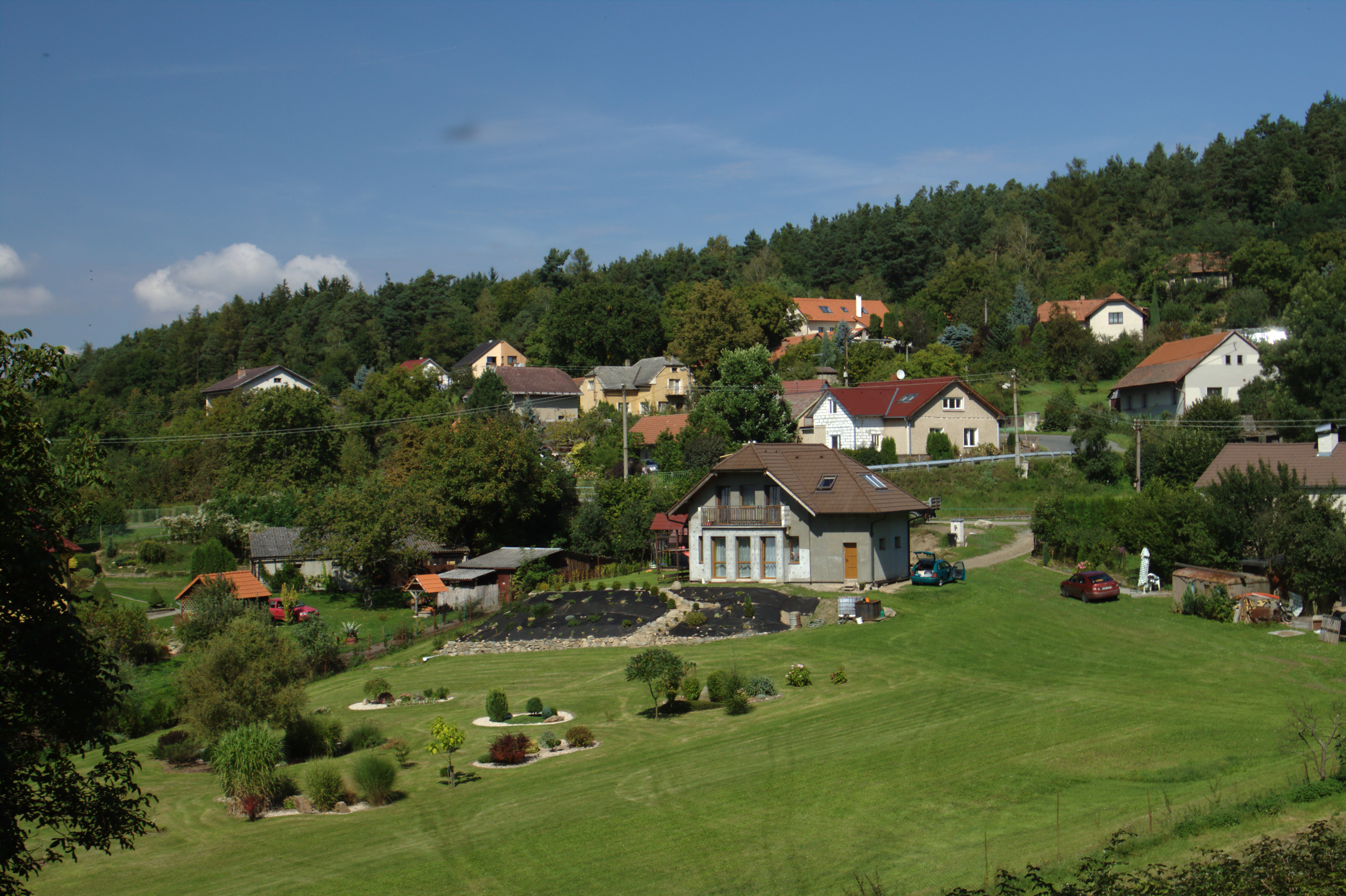 The village of Vysoký Újezd near Benešov